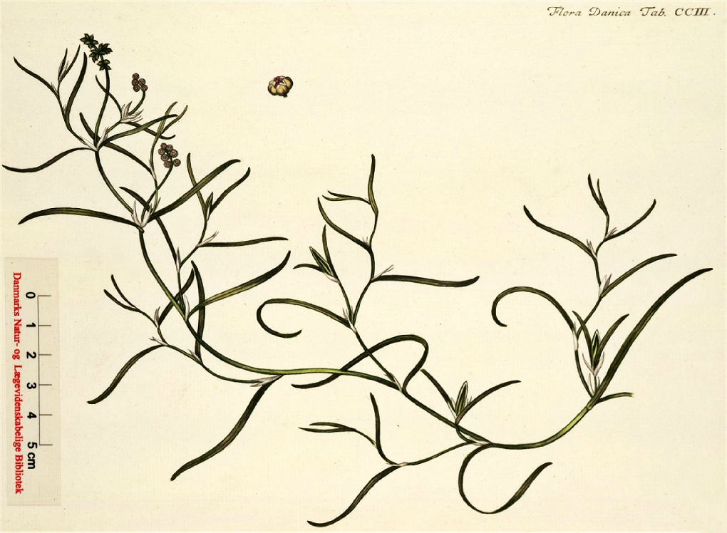 Potamogeton friesii